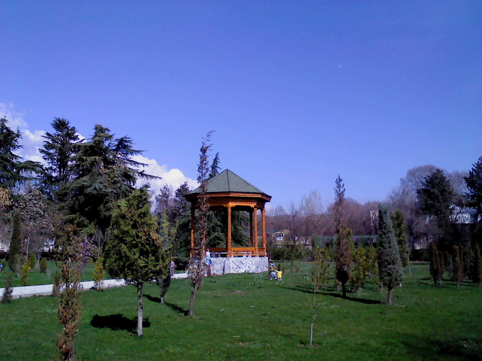 Botanical Garden in Dushanbe, Tajikistan